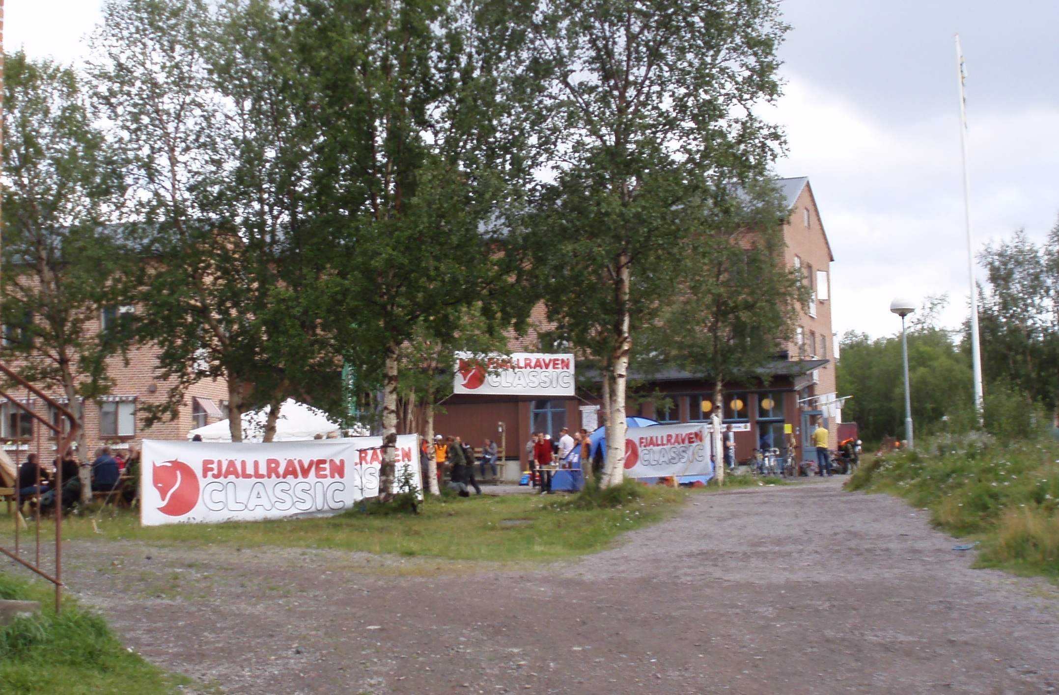 Finish of Fjällräven Classic 2007 in Abisko